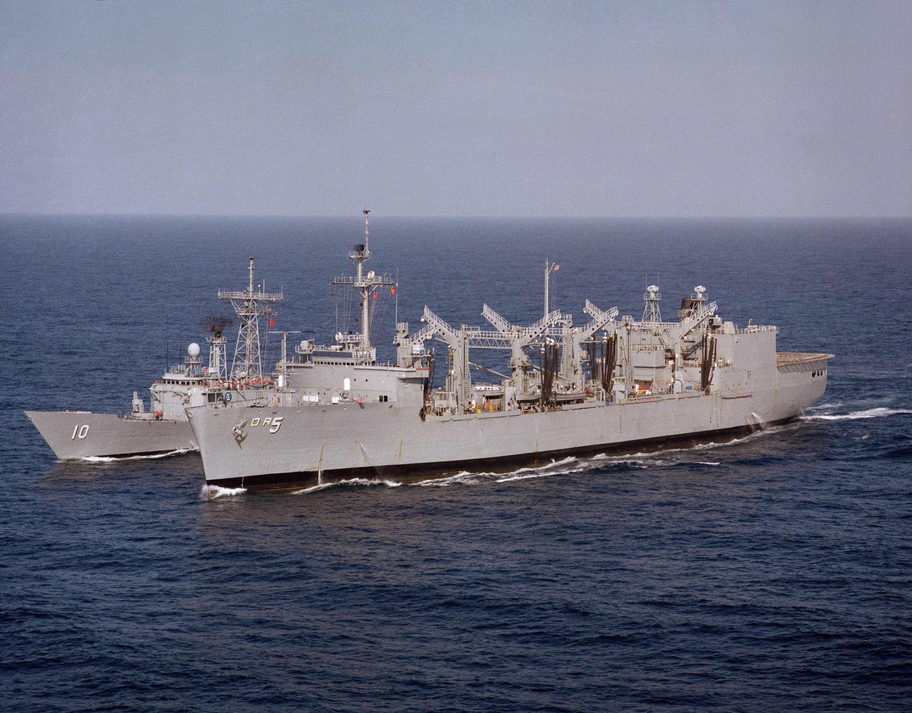 An aerial port bow view of the U.S. Navy replenishment oiler USS Wabash (AOR-5) conducting an underway replenishment of the guided missile frigate USS Duncan (FFG-10) in the Pacific Ocean on 16 October 1984.